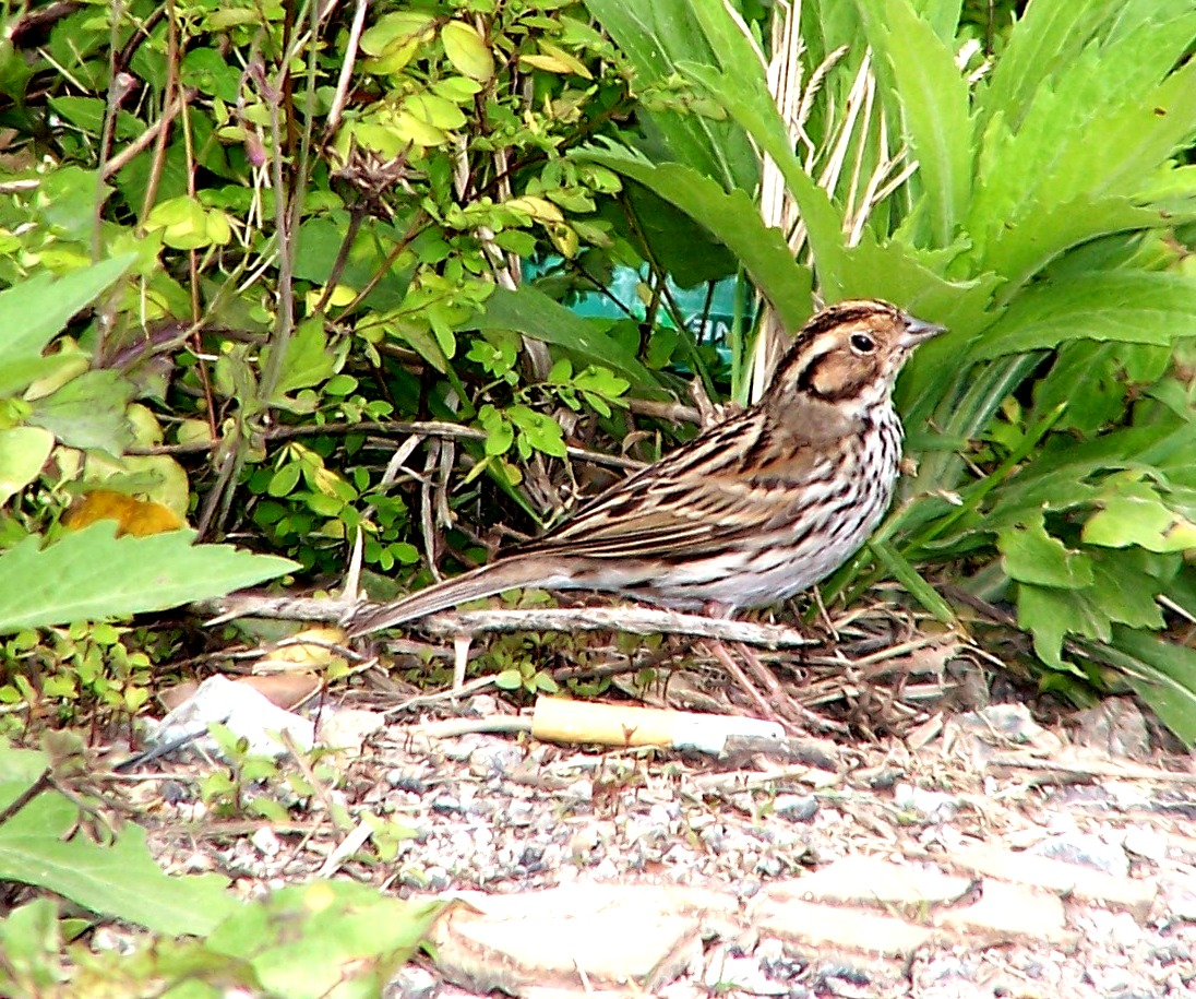 Little Bunting Emberiza pusilla